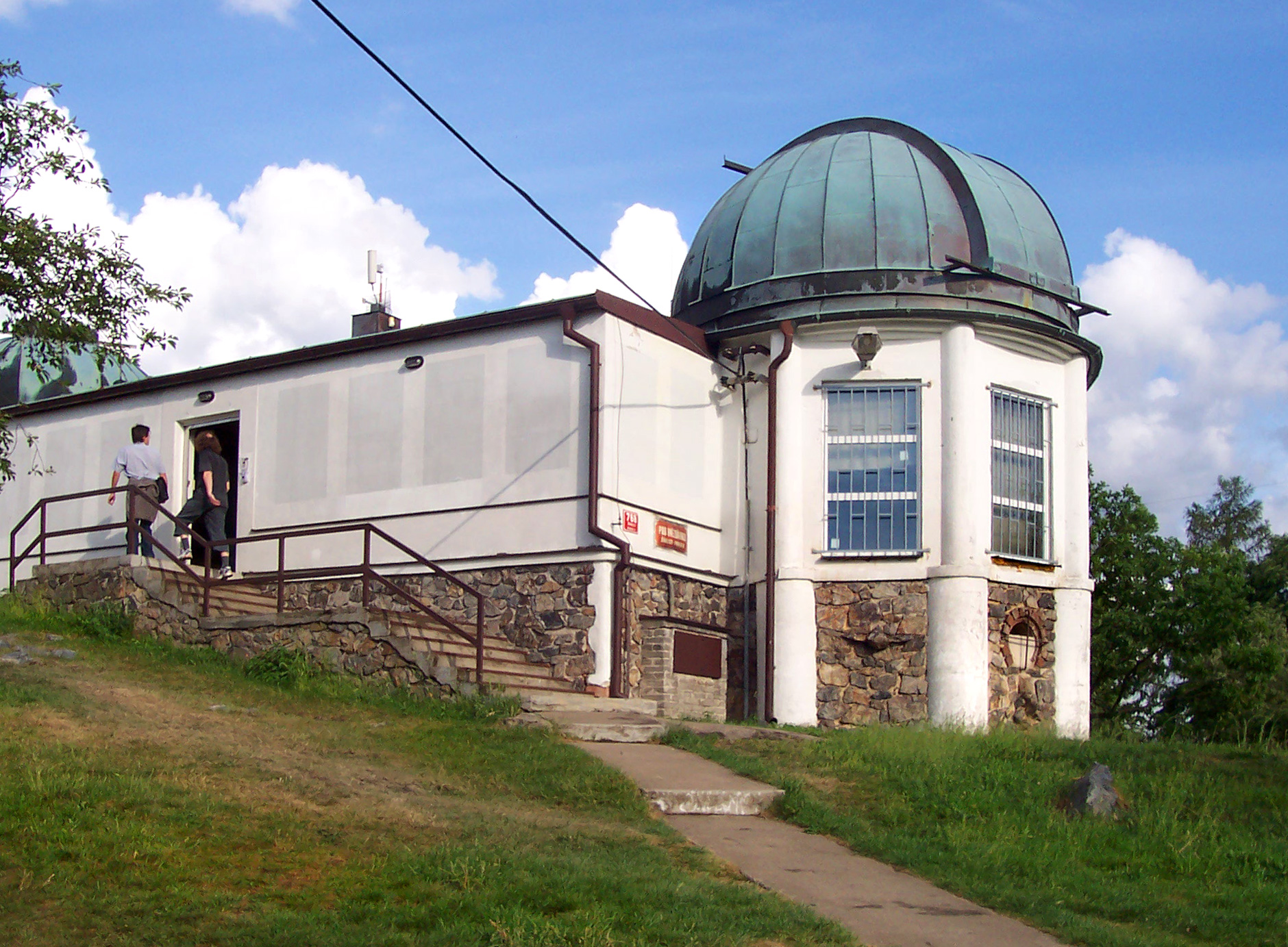 Observatory at Ďáblice, Prague